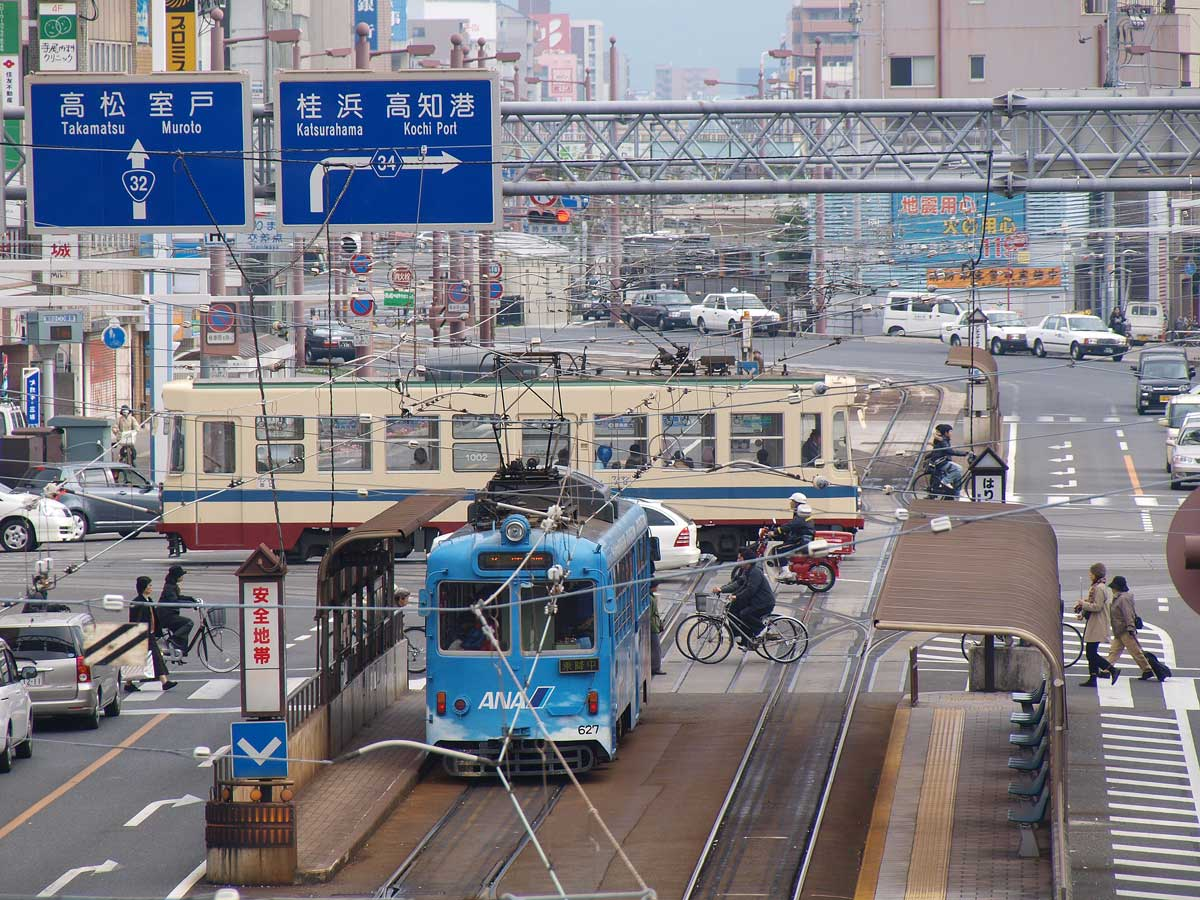 Trams of Tosa electric railway in Harimayabashi,Kochi,Japan.